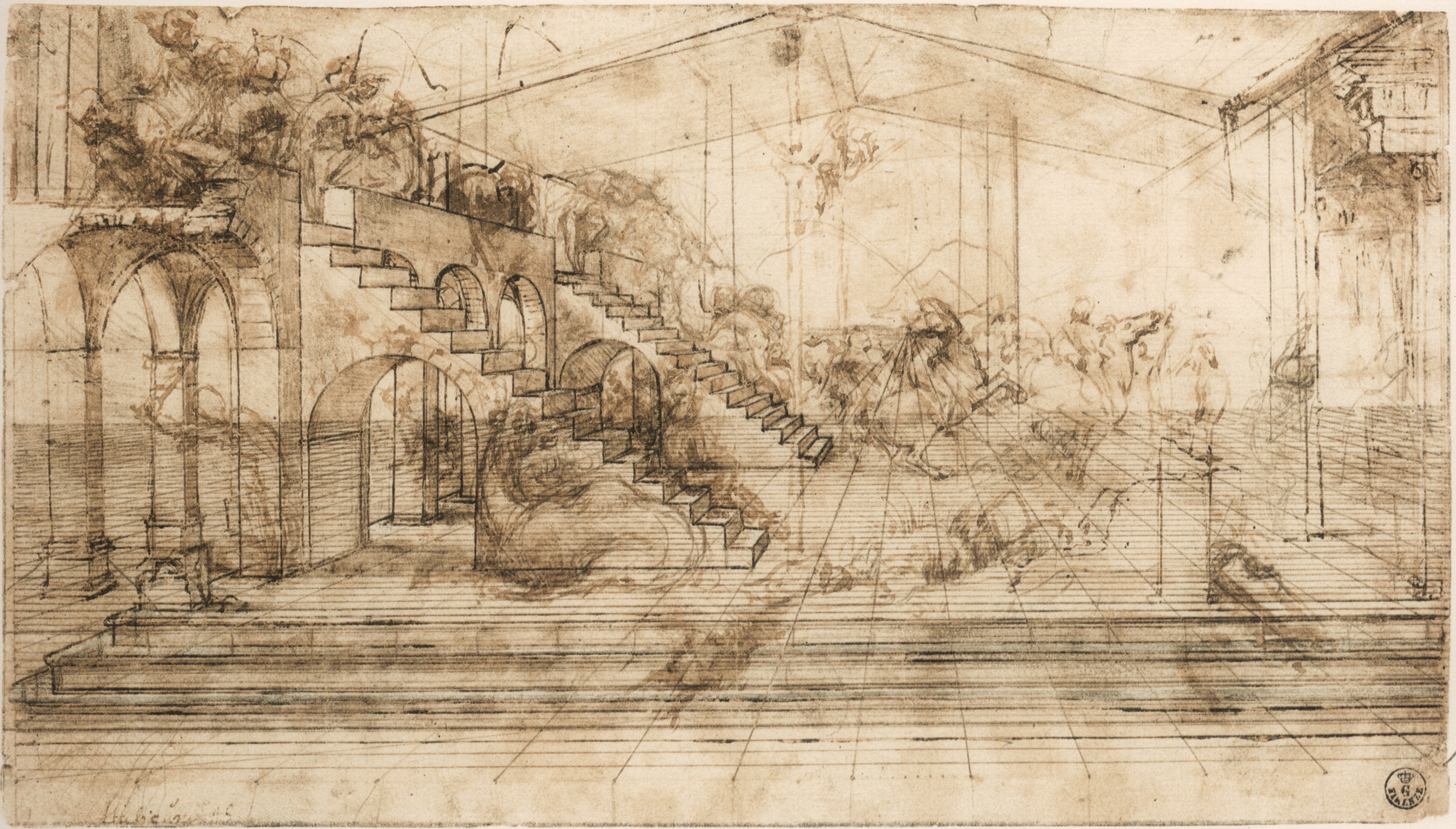 Leonardo da Vinci, studyof Adoration of the Magi